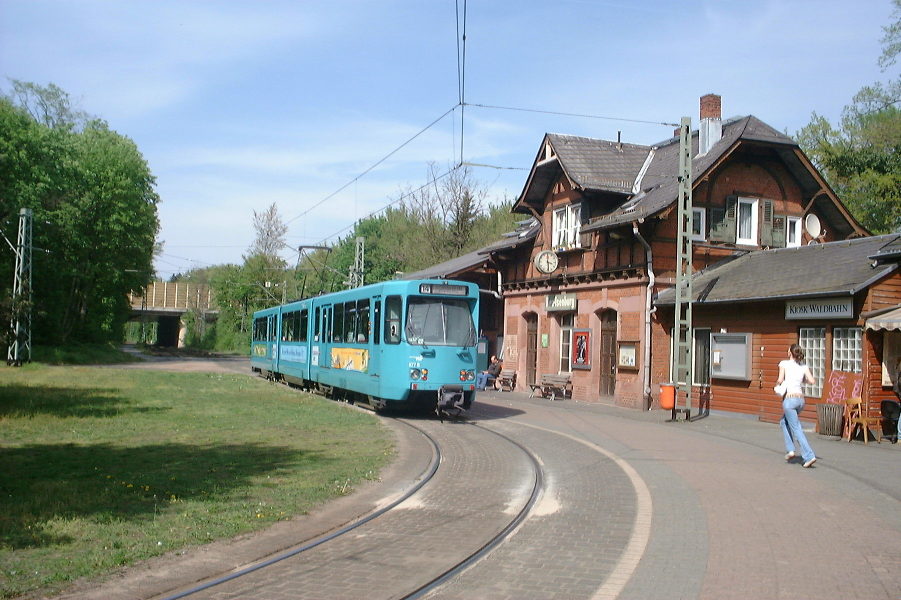 An electric tram in Frankfurt/Main, Germany